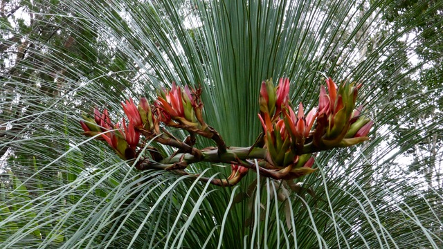 Spear Lily, Doryanthes palmeri, arching in front of a Grass Tree, Xanthorrhoea johnsonii , Heritage Park, Mullumbimby